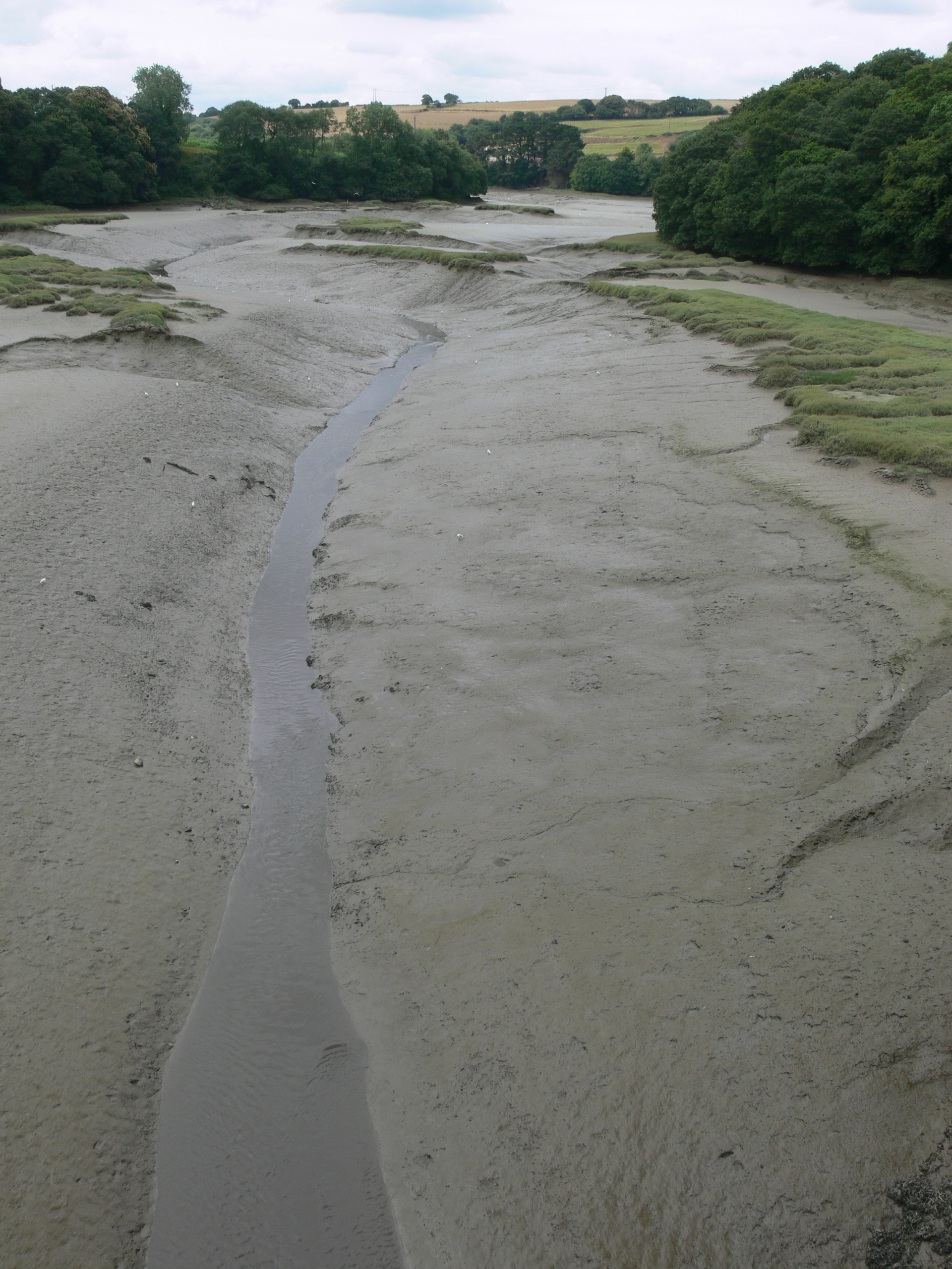 Mudflats of the french coastal river The River Penzé (Summer 2010), upstream from the estuary of the river Penzé In the Baie de Morlaix (fr) (filed ZNIEFF, rich in birds with sometimes Alca torda, not far from the mudflats of Locquénolé (Important for birds) and from the River of Morlaix who form the other great natural infrastructure of the French Blue Frame in this area. For" Water management", this river is Concerned by SAGE (Schéma d'aménagement et de gestion des eaux) "Leon Trégor".